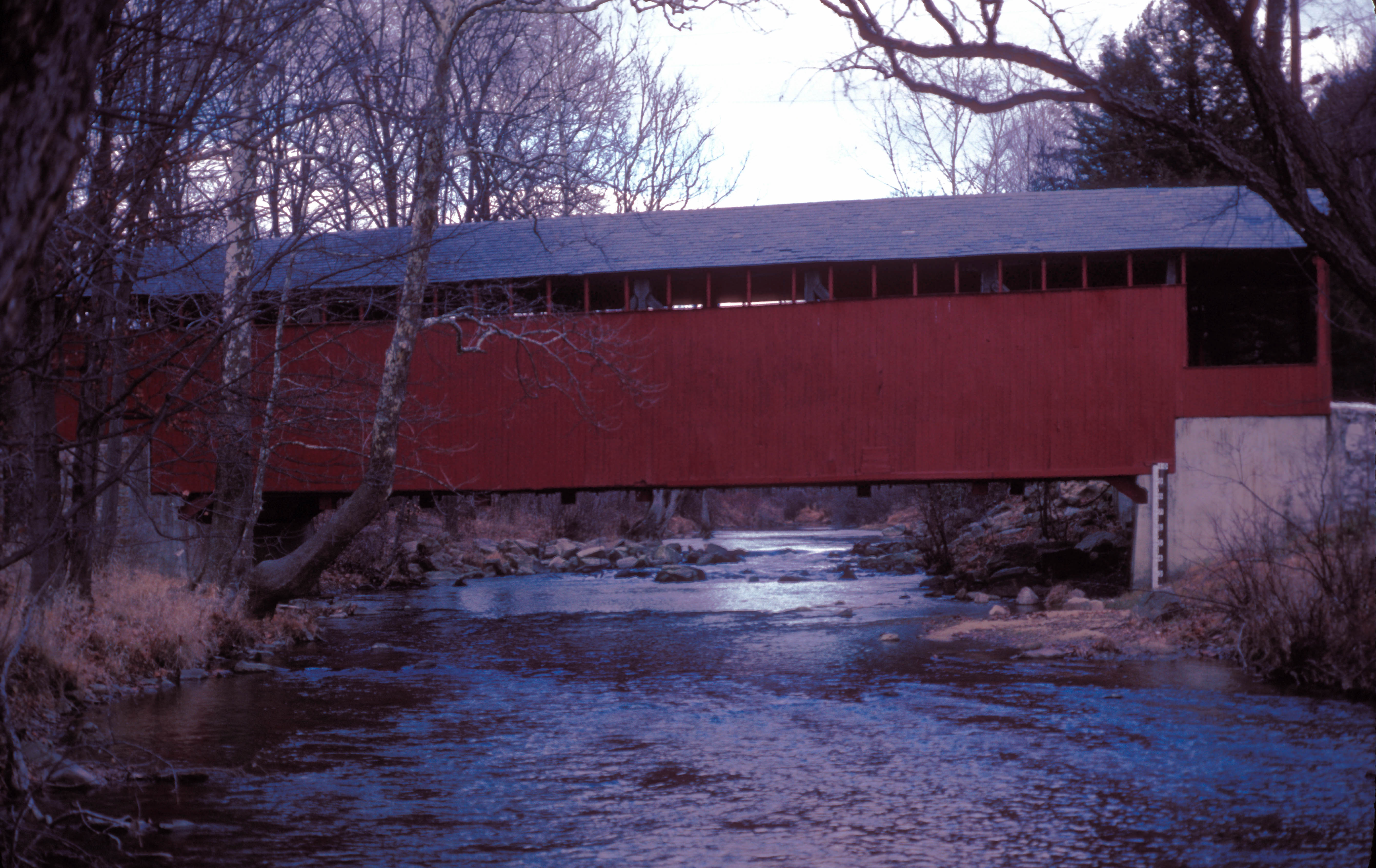 LITTLE GAP C.B. OVER PRINCESS CREEK IN LITTLE GAP; BURR; 87’